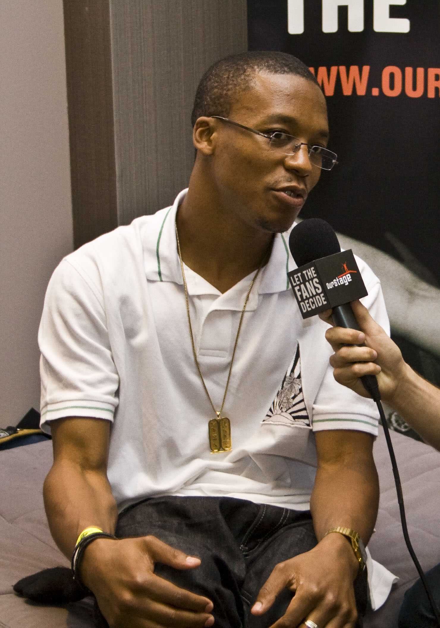 Rapper Lupe Fiasco at Lollapalooza on August 3, 2007